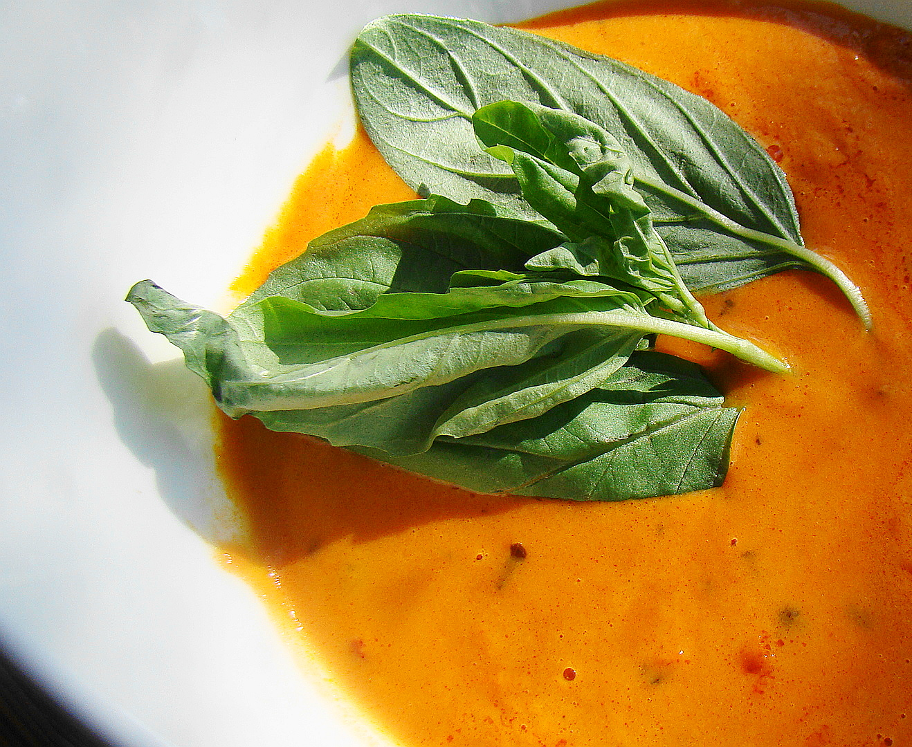 Rustic Tomato Pumpkin Bisque